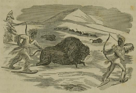 Book illustration, pen drawing